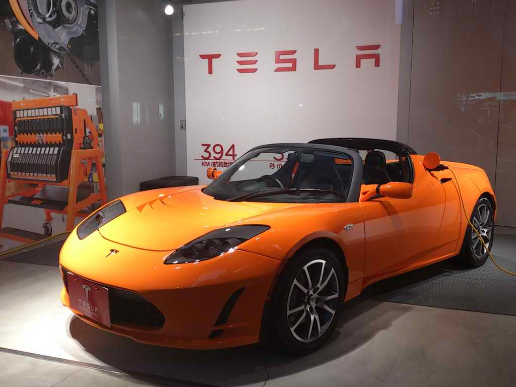 A Tesla Roadster on display at a Japanese showroom.